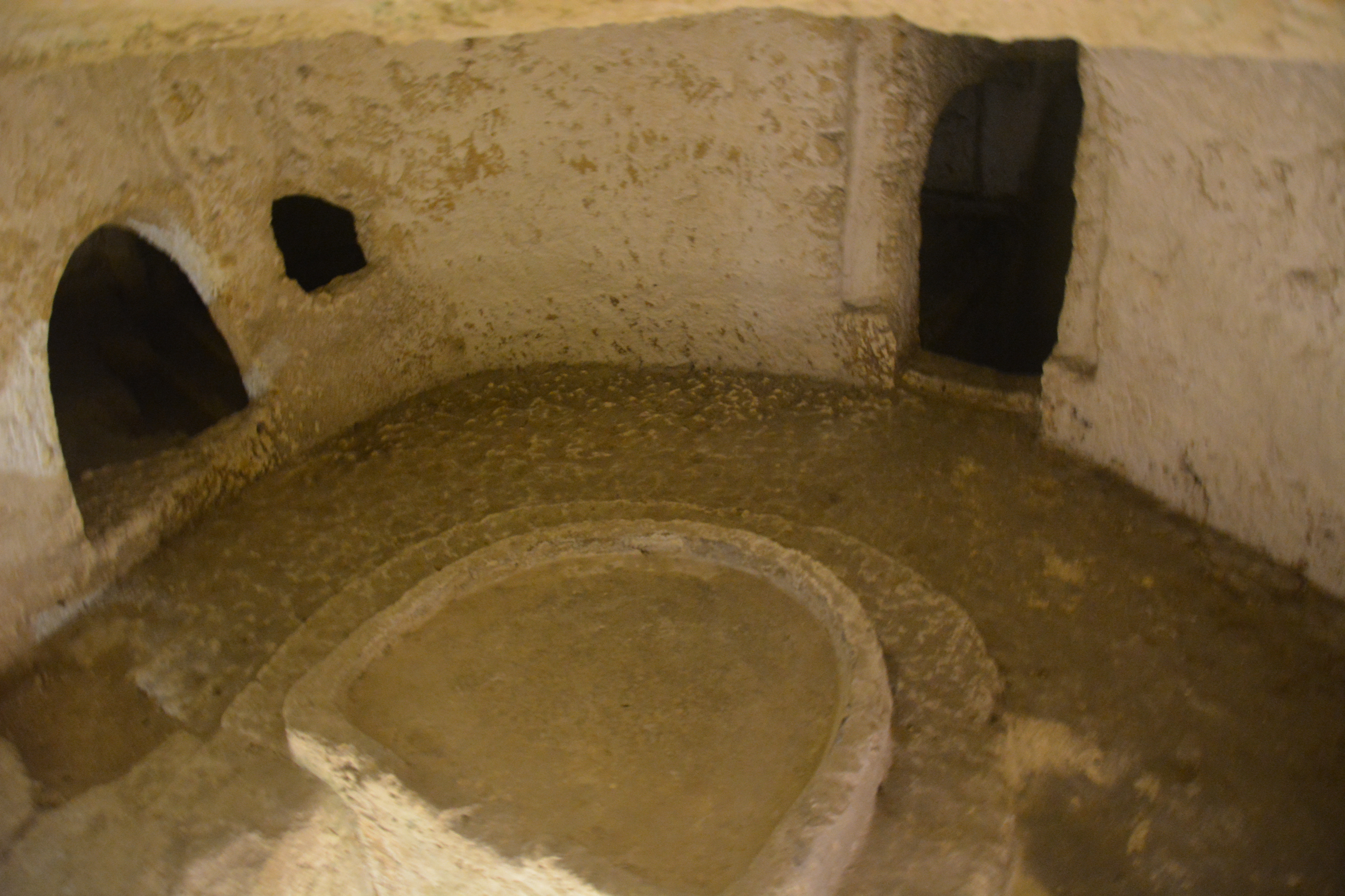 St. Paul’s catacombs in Rabat, Malta